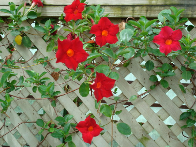 Picture of Mandevilla sanderi